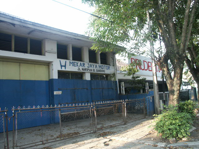 Bandung. Naripan Rd.